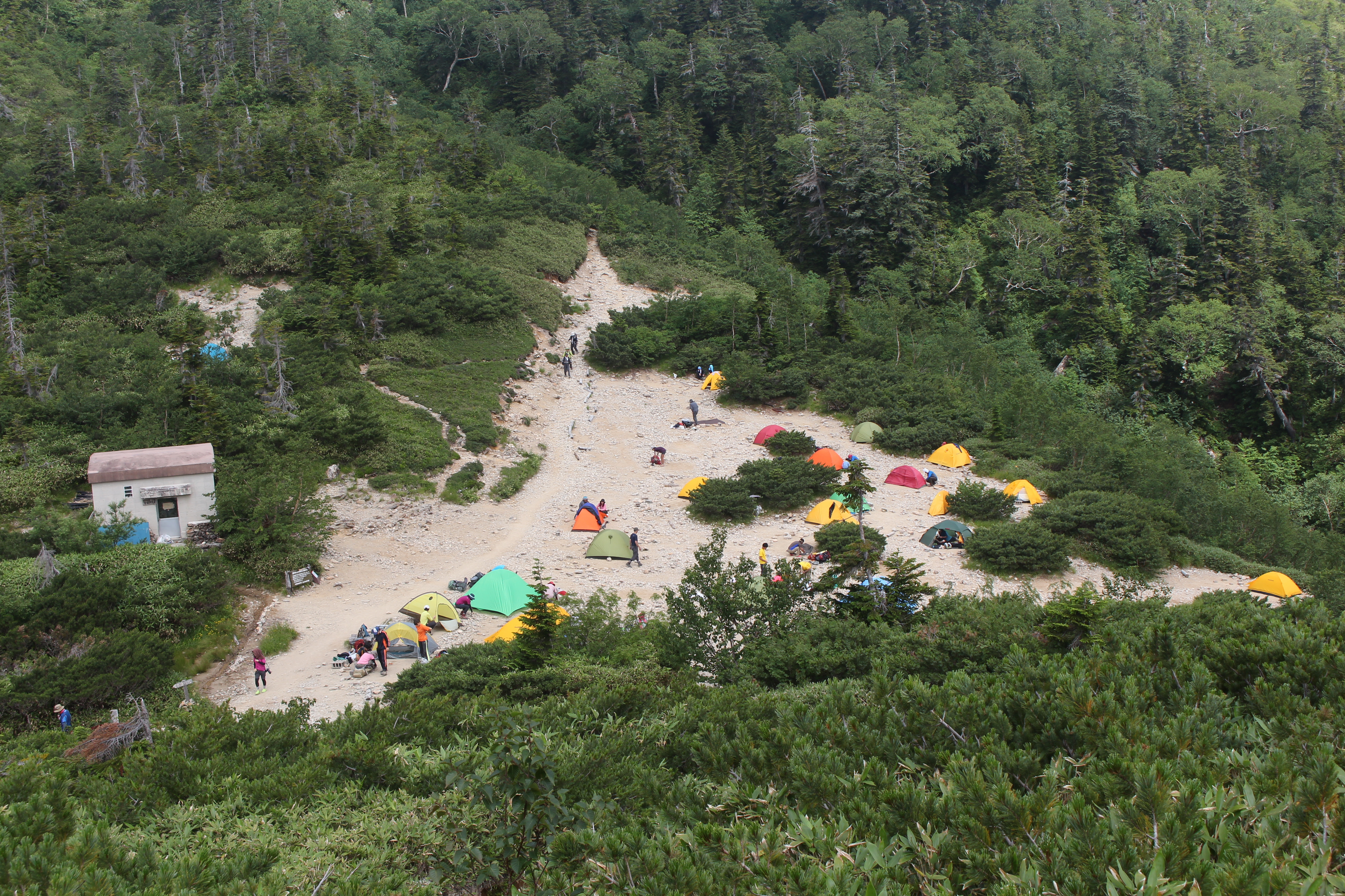 Yakushi pass in Tatayama Mountains of Hida Mountains, in Toyama, Toyama prefecture, Japan.